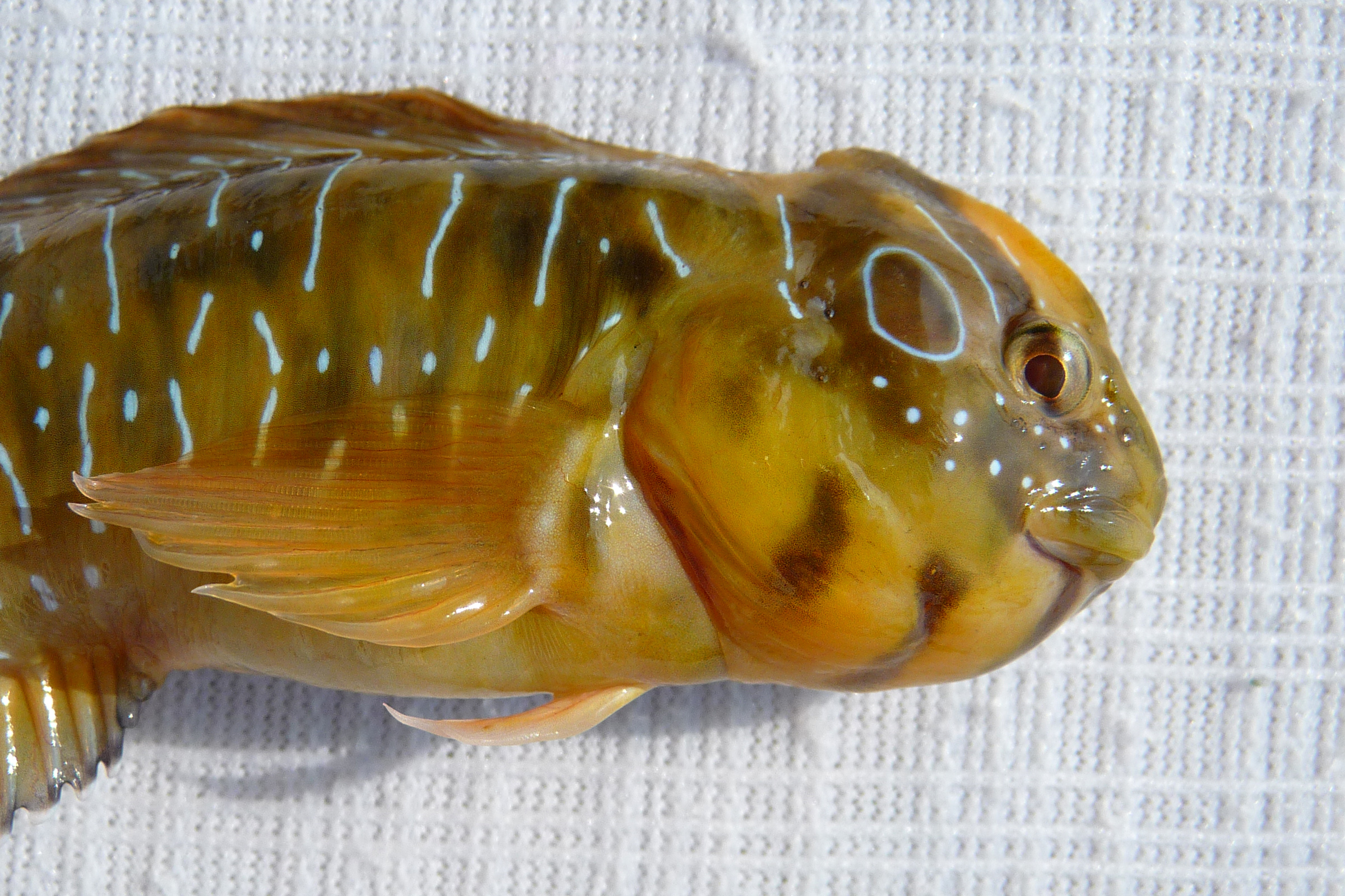 Salaria pavo (Risso, 1810). Peacock blenny male. This funny predatory fish was caught in the Black sea. Wet matter was used as a background to prevent damage to its skin. After very short photosession the fish was released back to the sea. This fish is able to change colour, like a chameleon. Geogoding of the location at which it was caught and photographed are the same.